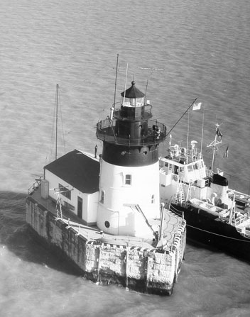 Detroit River Light also known as Bar Point Shoal Light, Michigan, USA